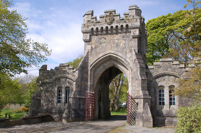 Porters Lodge Porters lodge used to be the main entrance to Lews Castle and the estate. Now it's purely decorative but it was inhabited by a family up until the 1950's.